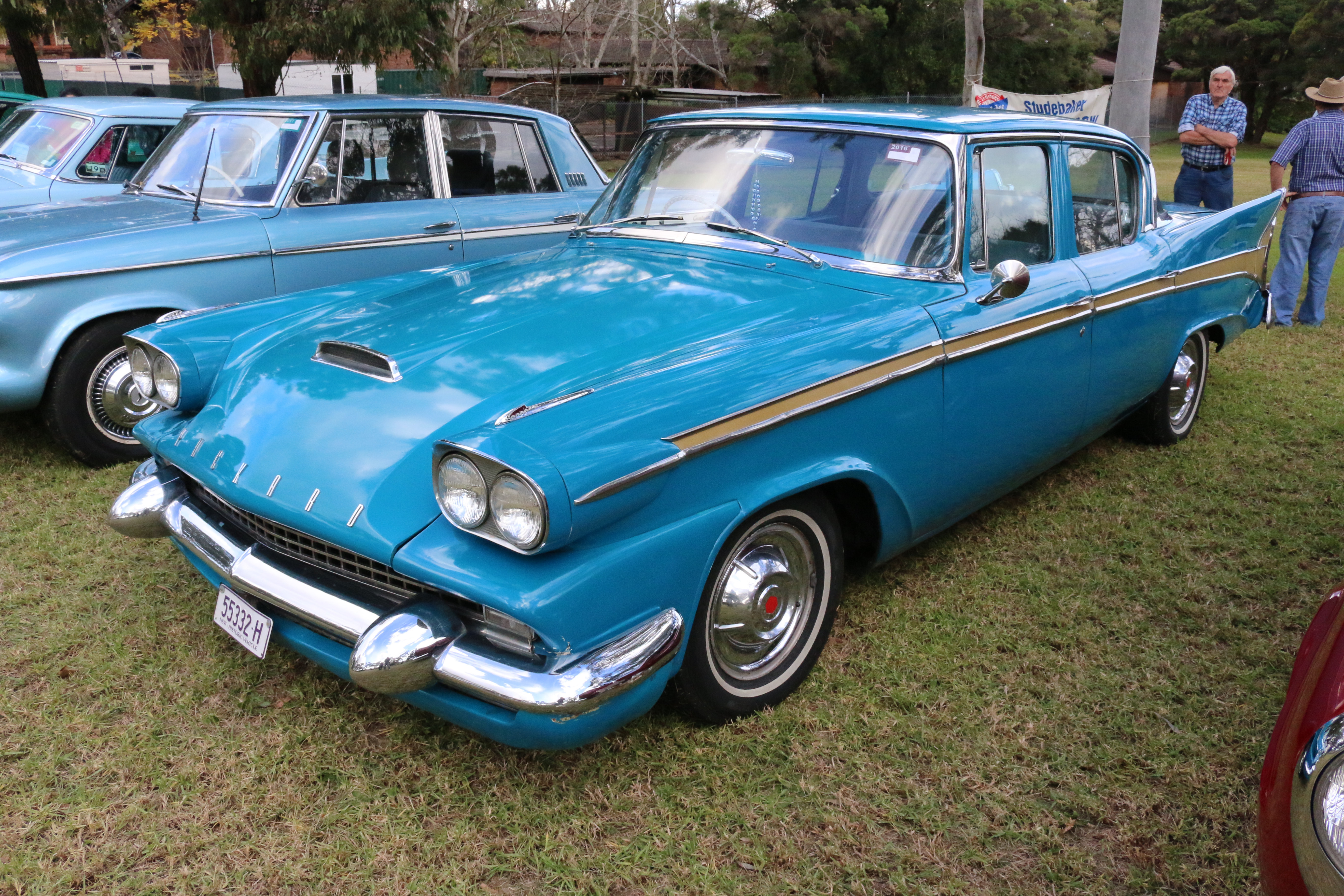 Packard Sedan (Model 58L-Y8) at American "Independents" Day, Linnwood House, Guildford NSW, July 2016